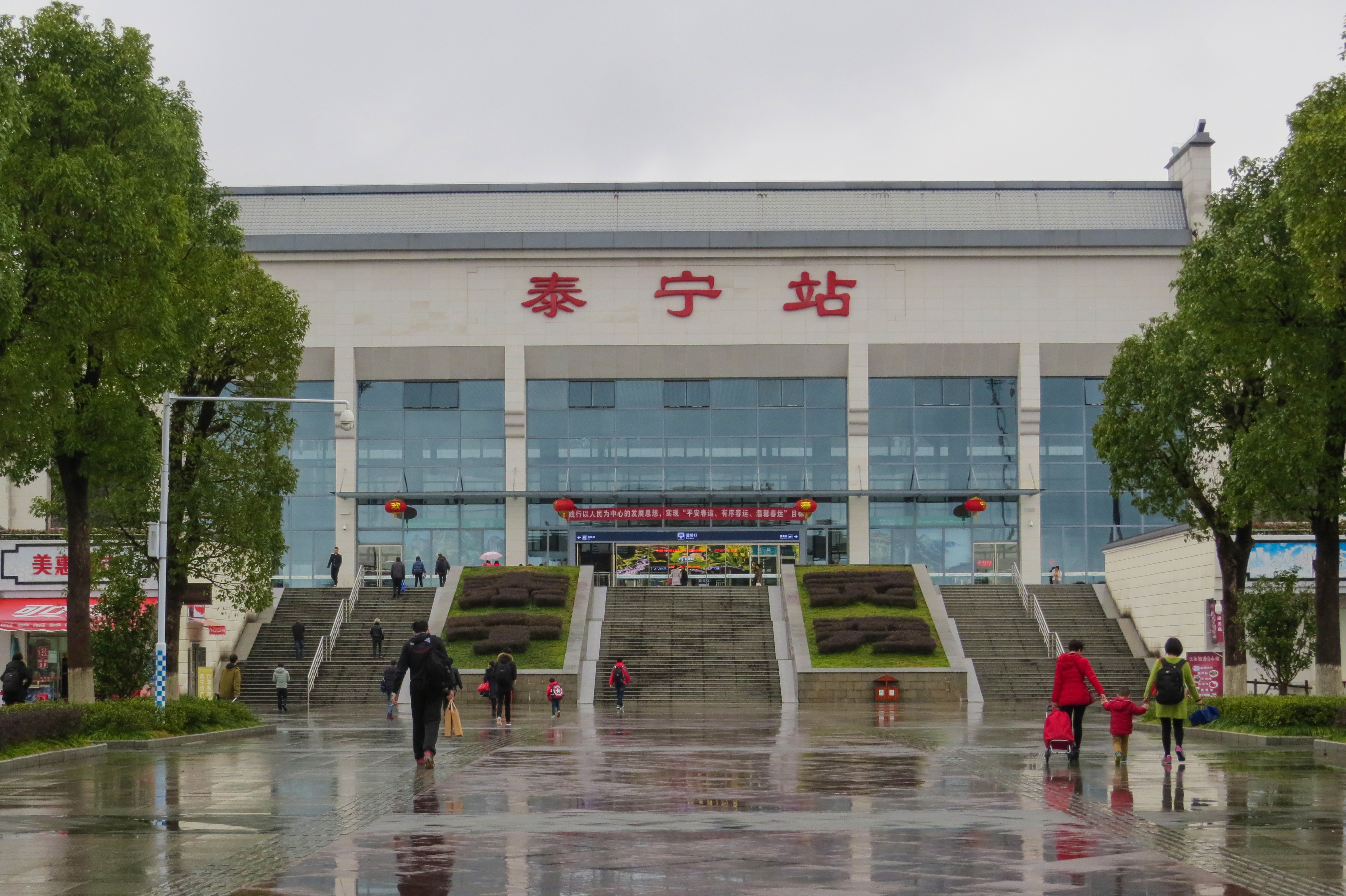 Even the railway station follows this scheme.